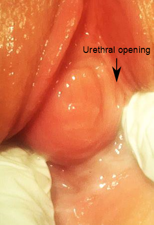 A Skene's duct cyst detected on a pregnant female presenting with vulvar of a week's duration.